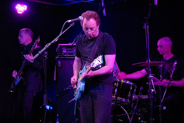 Wire performing, june 2008. L to R: Graham Lewis, Colin Newman, Robert Grey (aka Robert Gotobed). Photo by Fergus Kelly.